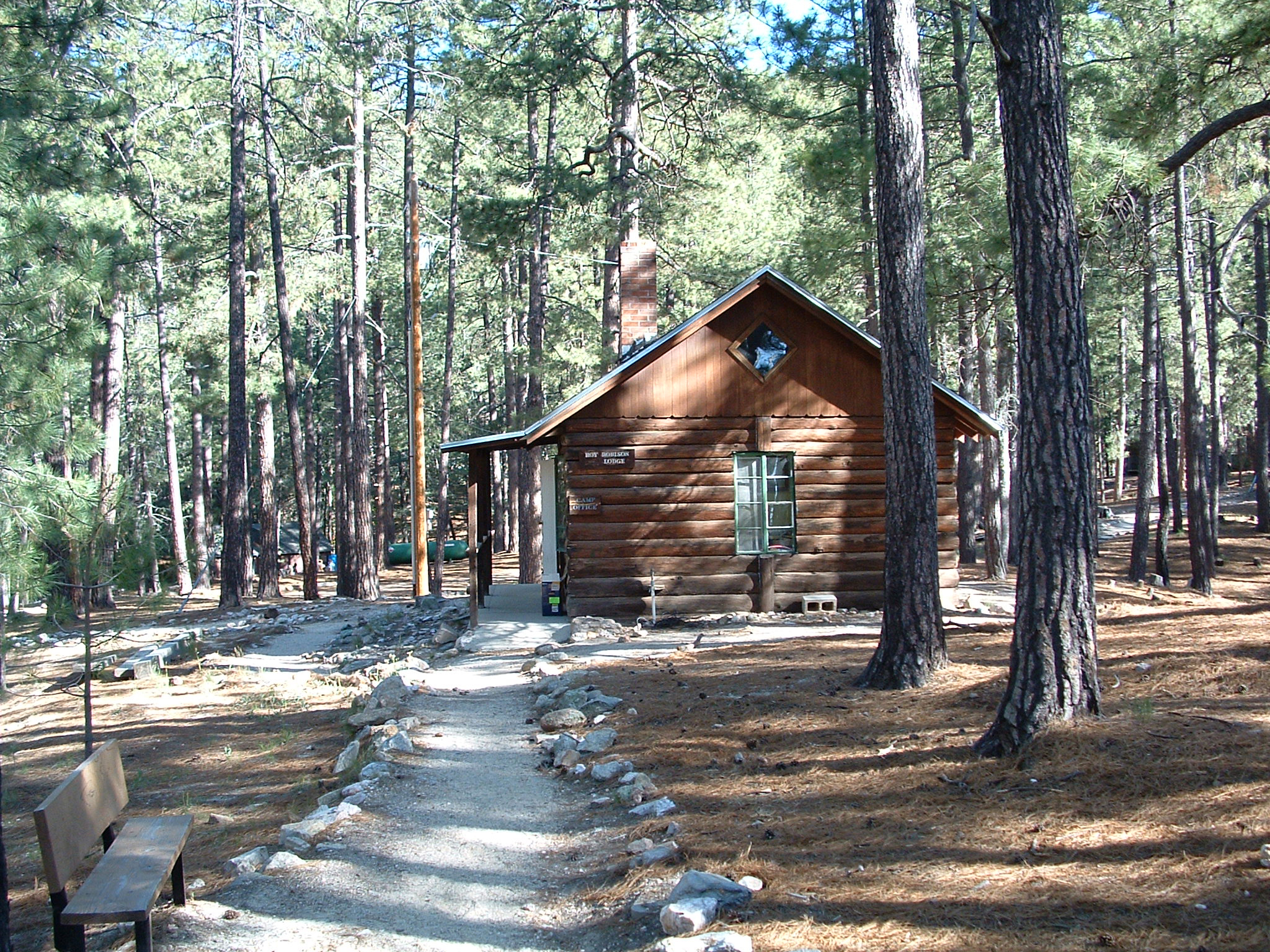 Cabin in the Woods at Camp Lawton